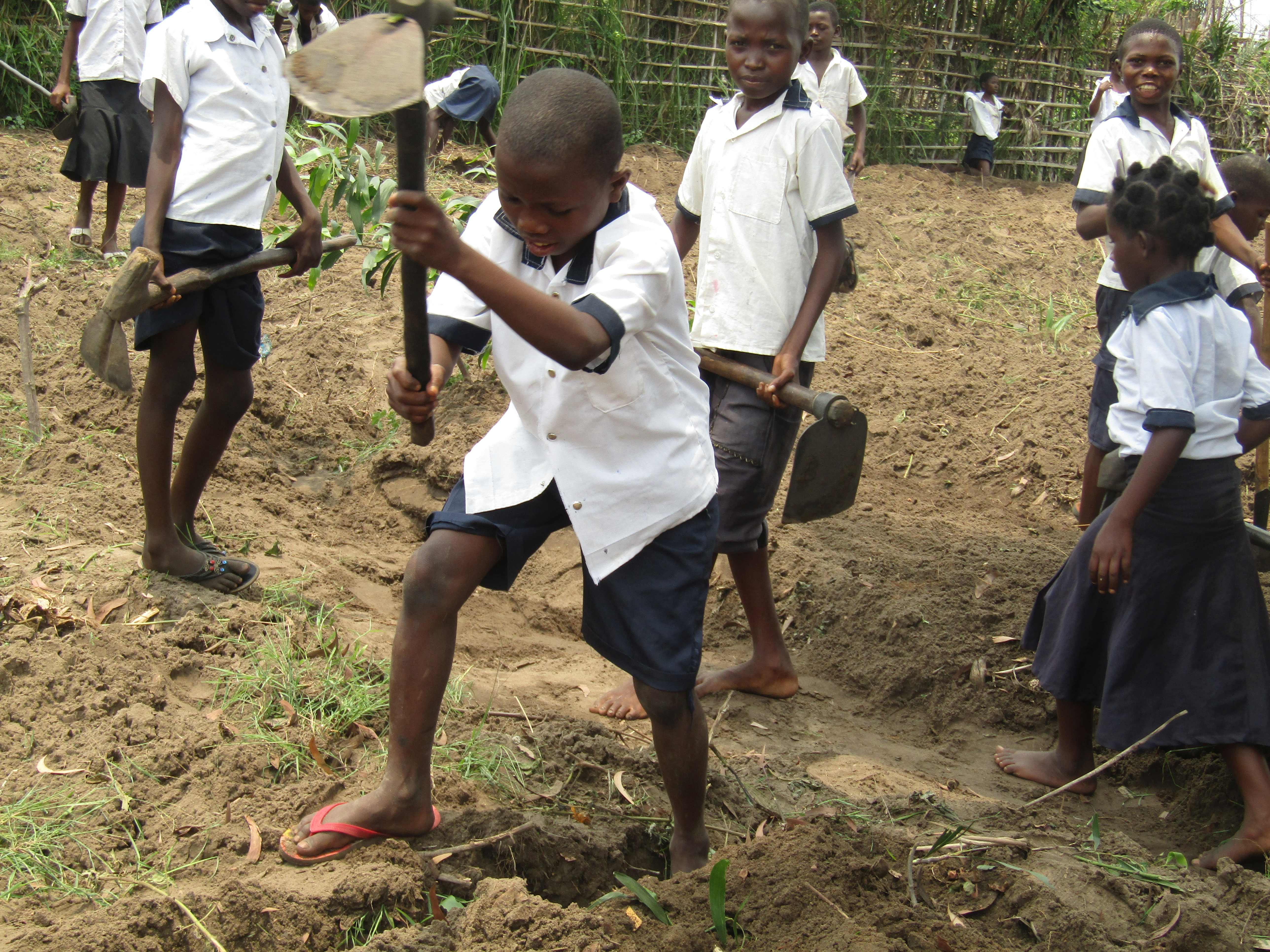 children learning the cultivation of land at school, Kikwit This is an image of "African people at work" from Democratic Republic of the Congo